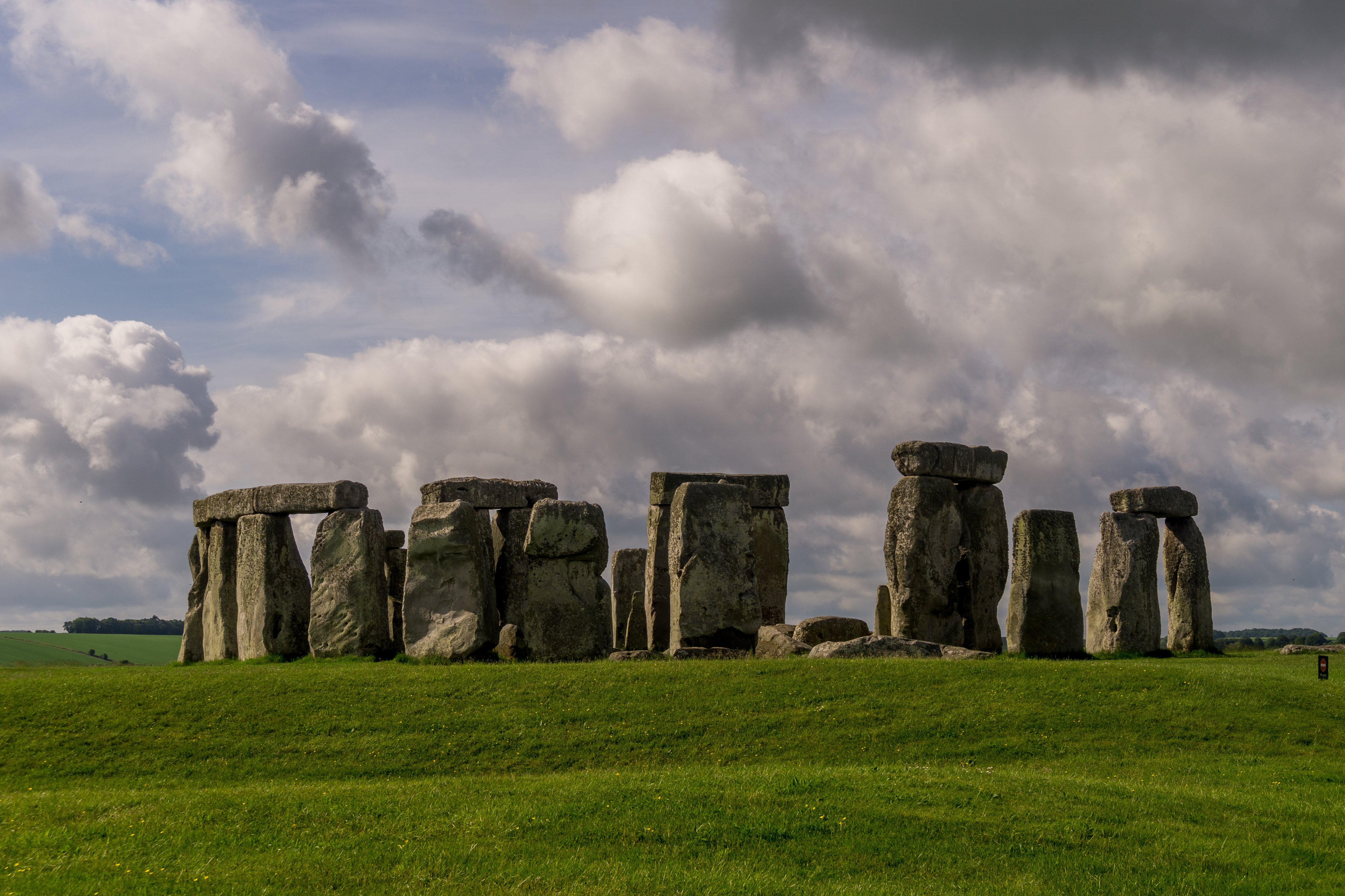 Stonehenge Wikidata has entry Q39671 with data related to this item.